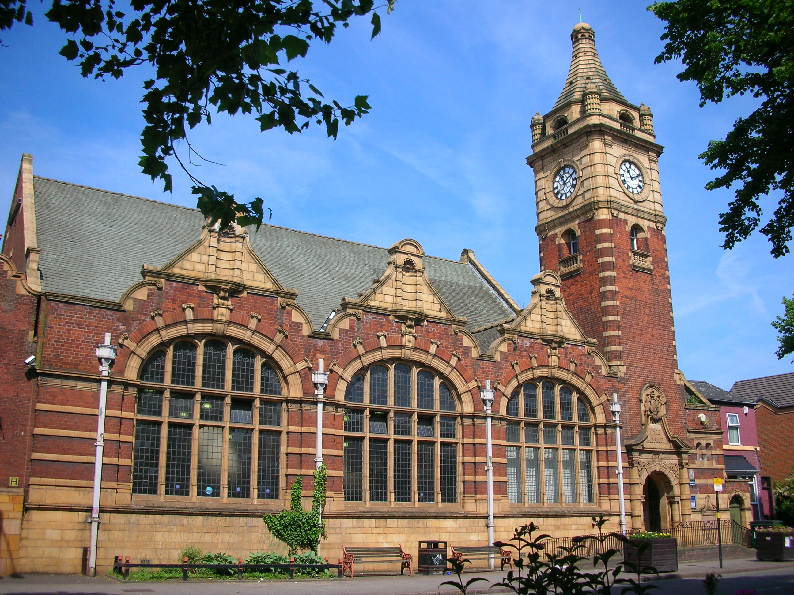 The public library on Moseley Road, Balsall Heath, Birmingham, England. Photographed by me.